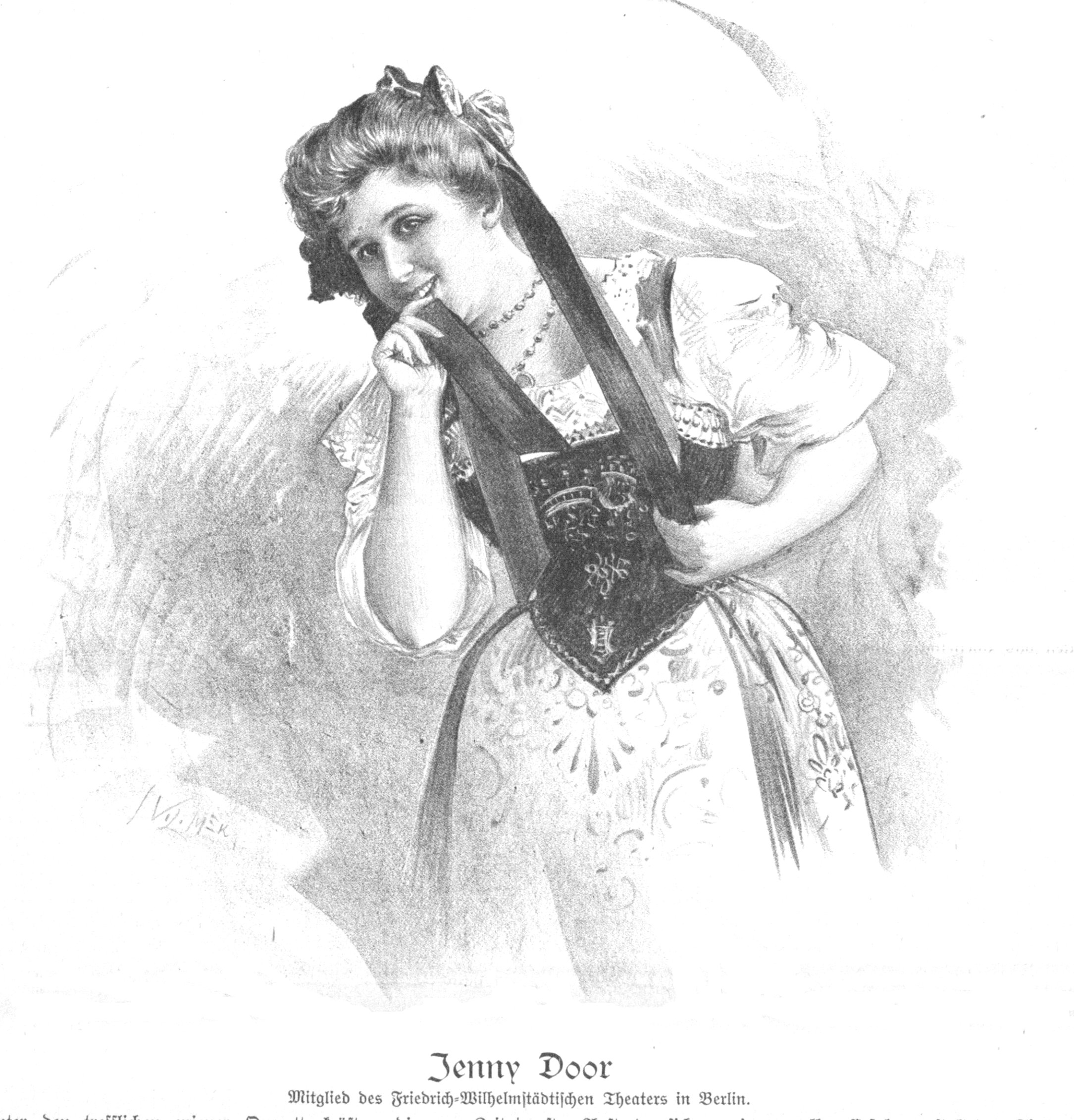 Portrait of Jenny Door (1879-??), Austrian actress and singer.